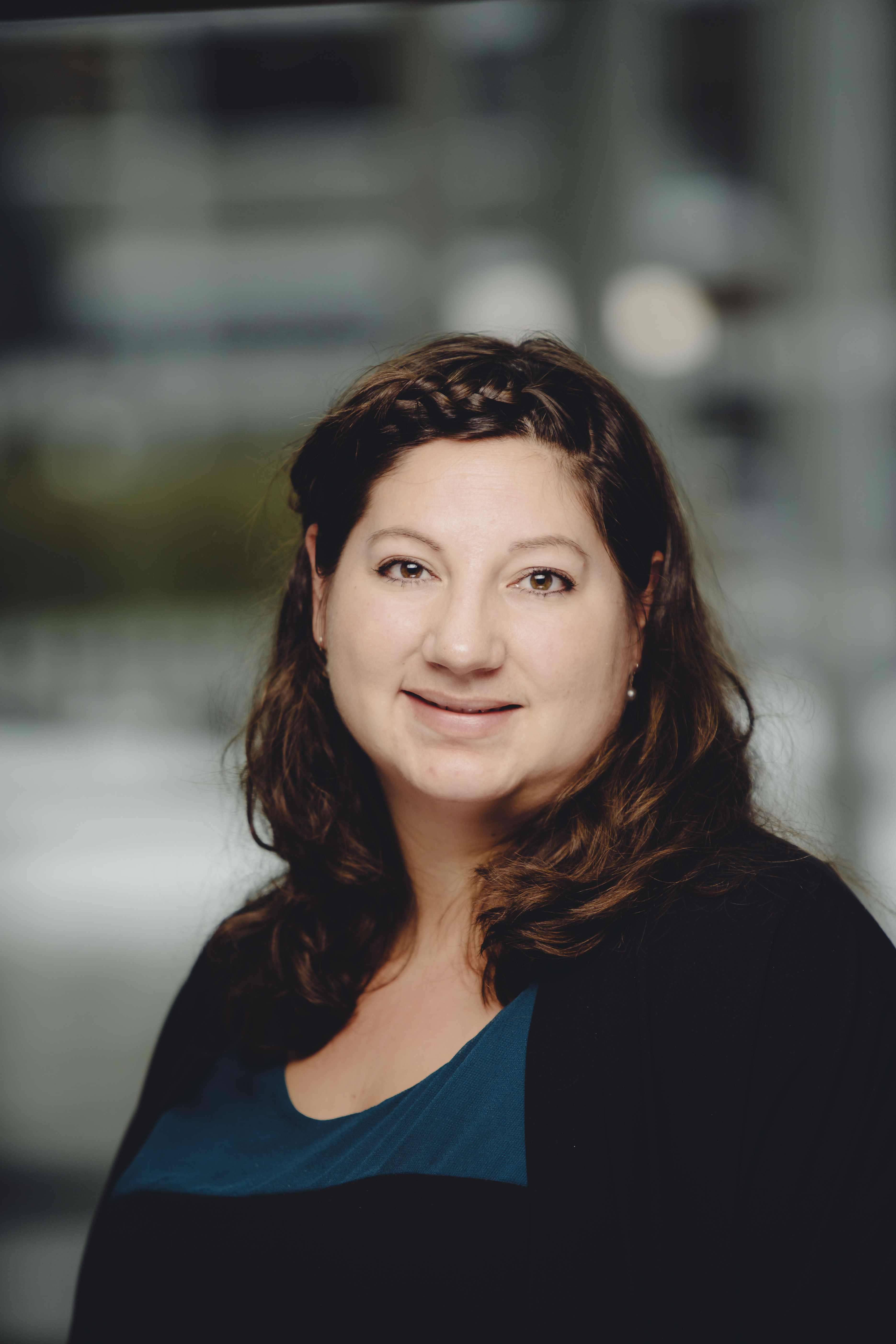 Tone Marie Myklevoll. Foto: Marius Fiskum Bildet kan fritt lastes ned. Flere størrelser er tilgjengelige i menyen til høyre for bildet. Vennligst krediter fotograf. --- This image may be downloaded for commercial and non-commercial use. Various sizes of this image may be found in the menu on the right. Please credit the photographer.